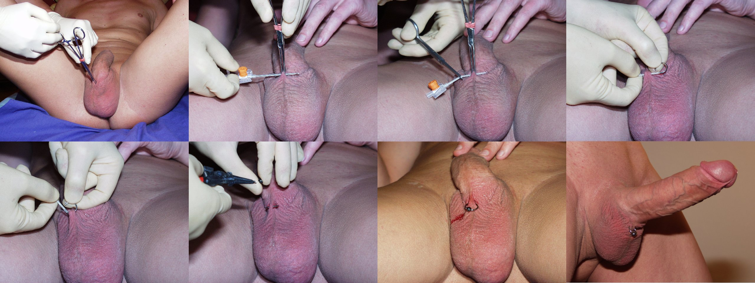 My Hafada Piercing